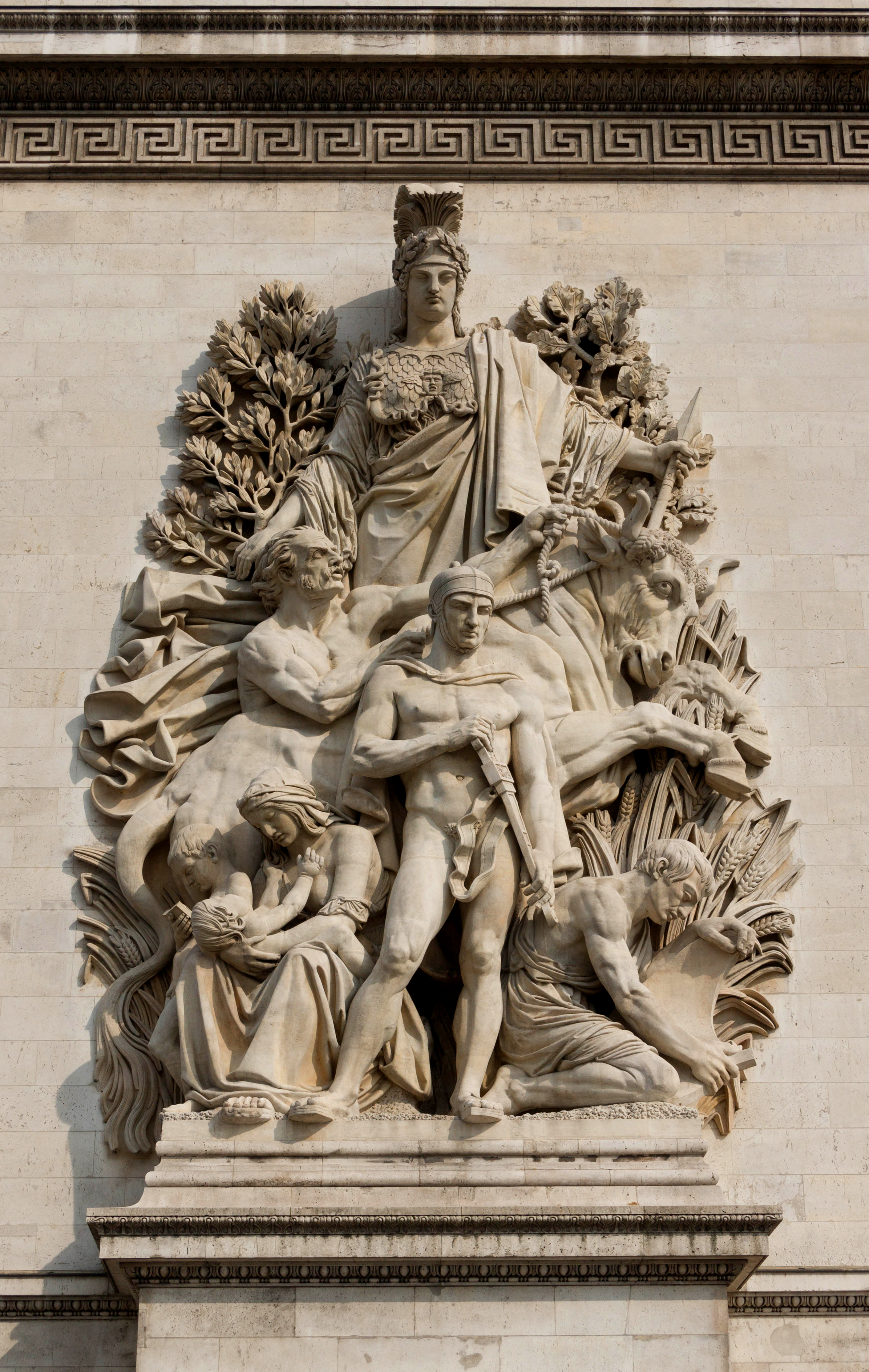 "Peace of 1815", by Antoine Etex, Arc de Triomphe de l'Etoile, Paris, France.